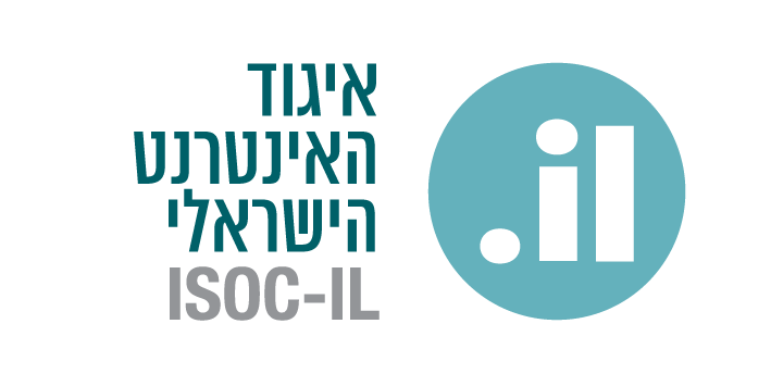 Israel Internet Association logo